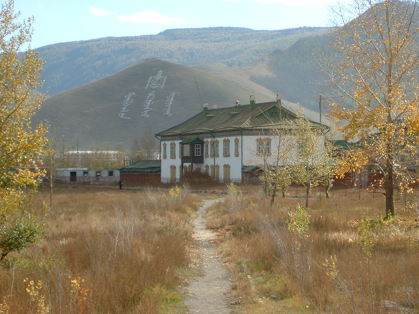 Bogdgegen's winter palace, Ulaanbaatar